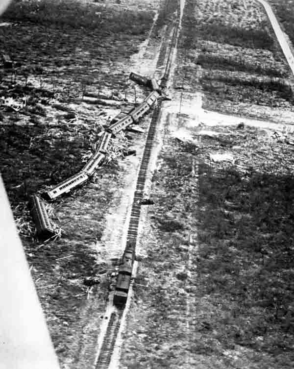 Florida East Coast Railway Overseas Railroad relief train derailed near Islamorada, Florida during the 1935 Labor Day hurricane.